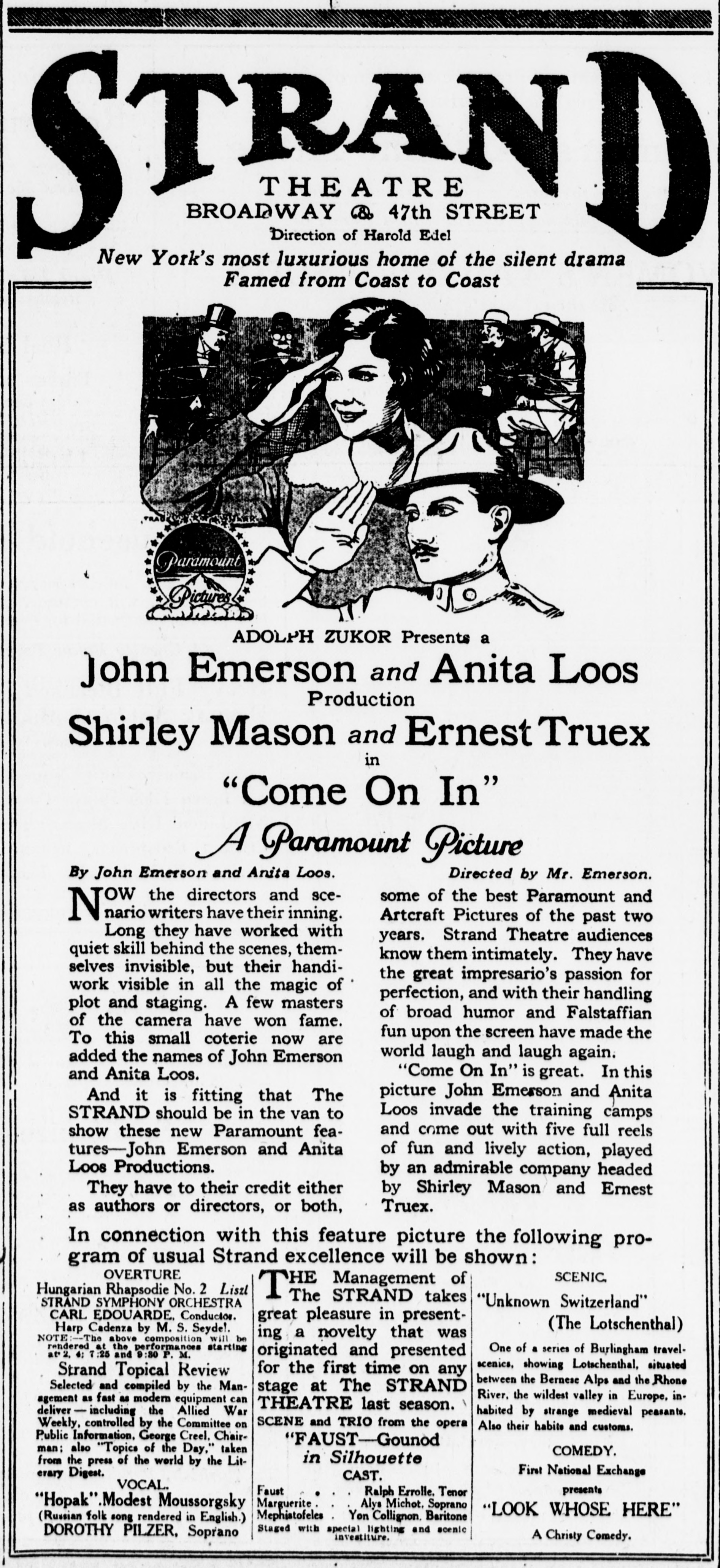 Come on In is a lost 1918 American comedy silent film directed by John Emerson and written by John Emerson and Anita Loos.